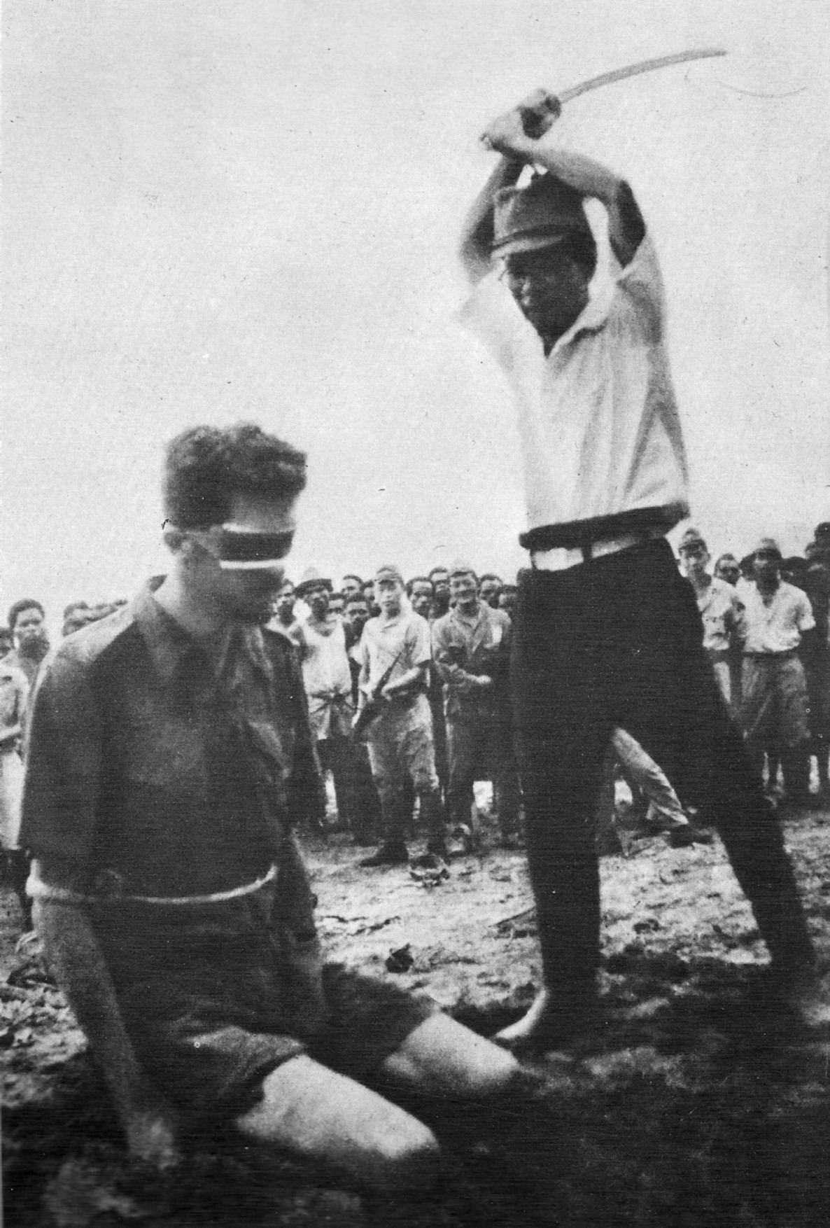 Aitape, New Guinea. 24 October 1943. A photograph found on the body of a dead Japanese soldier showing NX143314 Sergeant (Sgt) Leonard G. Siffleet of "M" Special Unit, wearing a blindfold and with his arms tied, about to be beheaded with a sword by Yasuno Chikao. The execution was ordered by Vice Admiral Kamada, the commander of the Japanese Naval Forces at Aitape. Sgt Siffleet was captured with Private (Pte) Pattiwahl and Pte Reharin, Ambonese members of the Netherlands East Indies Forces, whilst engaged in reconnaissance behind the Japanese lines. Yasuno Chikao died before the end of the war.